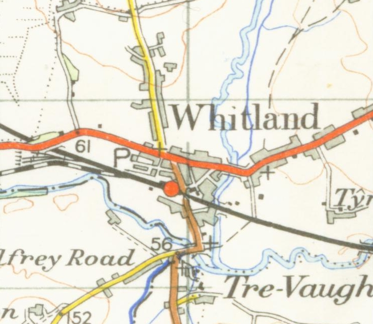 map of Whitland at 1 inch to the mile scale scanned at 600 DPI